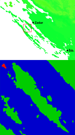 Map of the islands near island of Iž with map of north Dalmatia, Croatia, with Veli Otok highlighted.